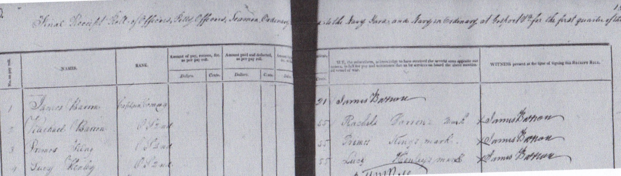 This muster enumerates # 1.Commodore James Barron and two enslaved females as Ordinary Seamen 2nd class they are : # 2. Rachel Barron OS2 and # 3.Lucy Henley OS2